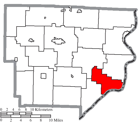 Map of the municipal and township boundaries of Monroe County, Ohio, United States, as of the 2000 census, with the location of Lee Township highlighted. Township borders are shown only in unincorporated areas in order to differentiate incorporated and unincorporated areas more clearly.